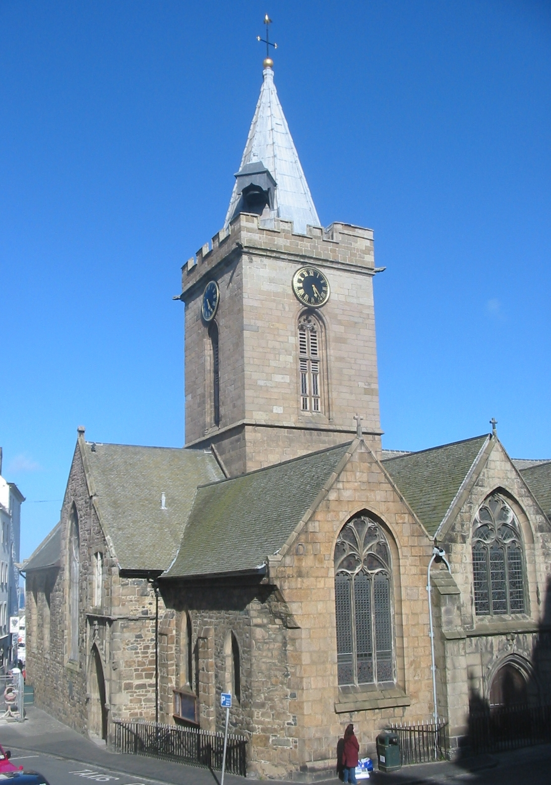 Saint Peter Port, Guernsey, May 2009